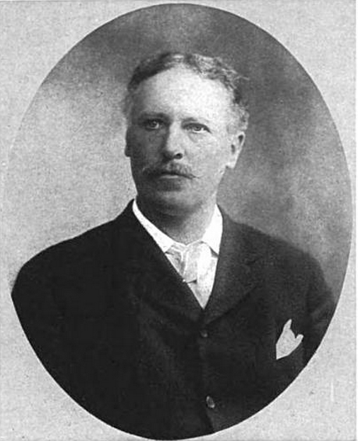 William S. Rainsford in 1898. The caption to the frontispiece gives the date.